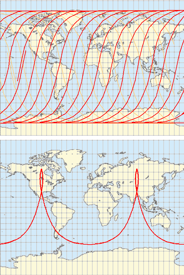 Ground tracks (earth) of satellites : Heliosynchronous orbit with an inclination of 99° and below Molniya highly elliptical orbit (40000km x 400km) with an inclination of 63.4 degrees and an orbital period of about 12 hours.